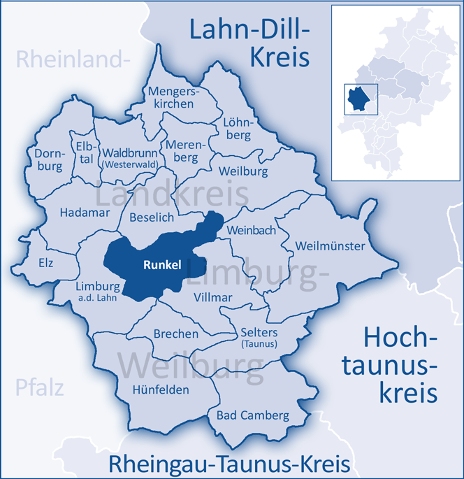 The map shows a district in the area of Limburg-Weilburg